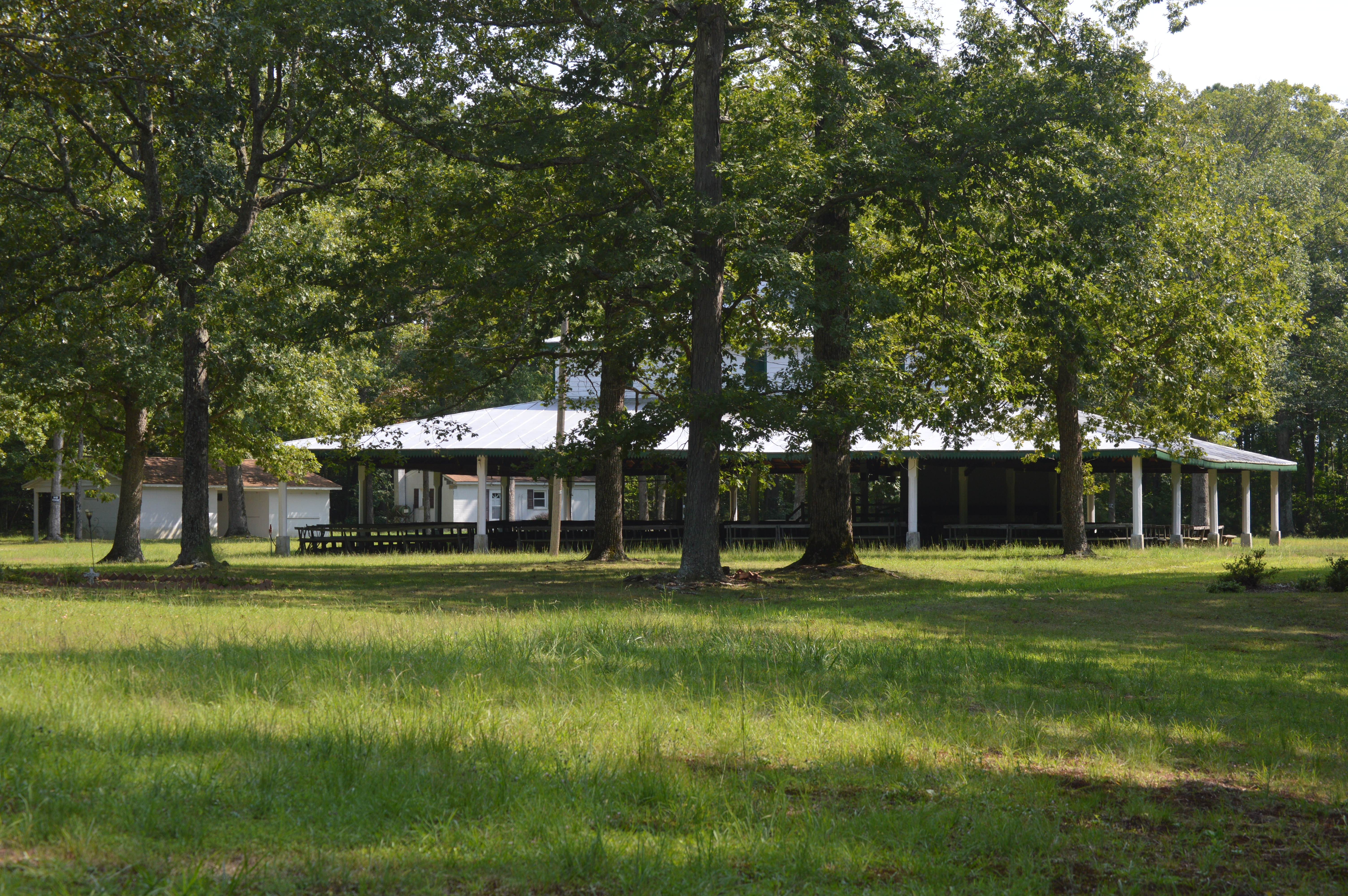 Open ground and the central pavilion at the Kirkland Grove Campground, a venue for Baptist camp meetings south of Heathsville in Northumberland County, Virginia, United States. Built in 1892, it is listed on the National Register of Historic Places.